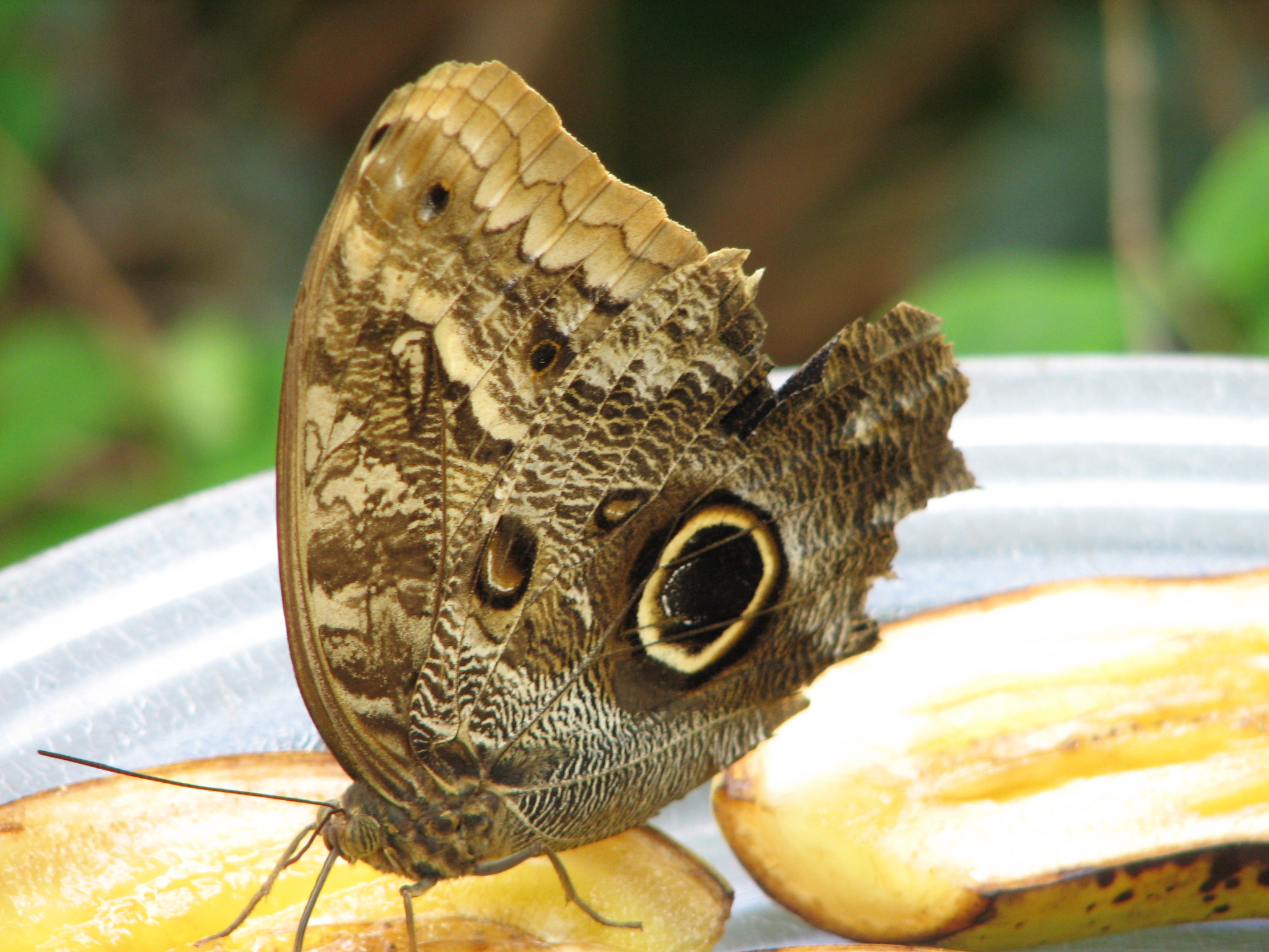 Image taken at Butterfly World Owl butterfly Caligo idomeneus